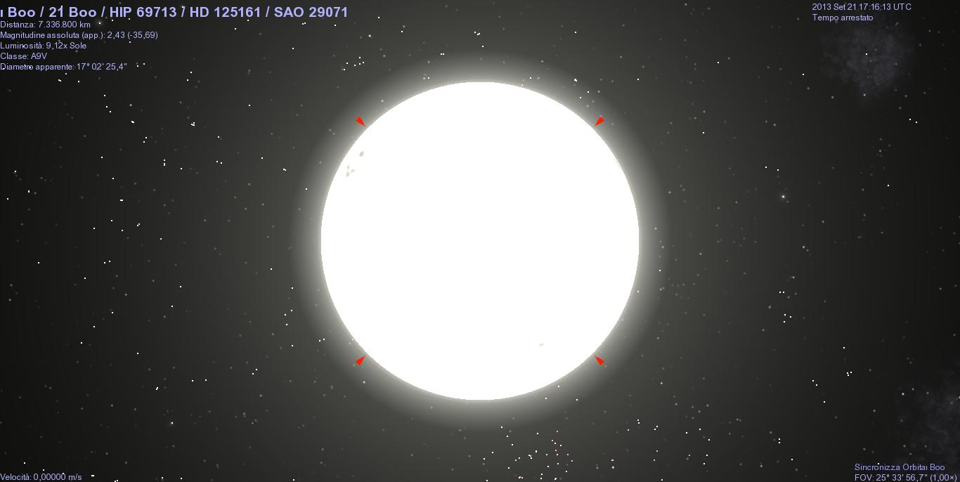 HD 125161 in Celestia